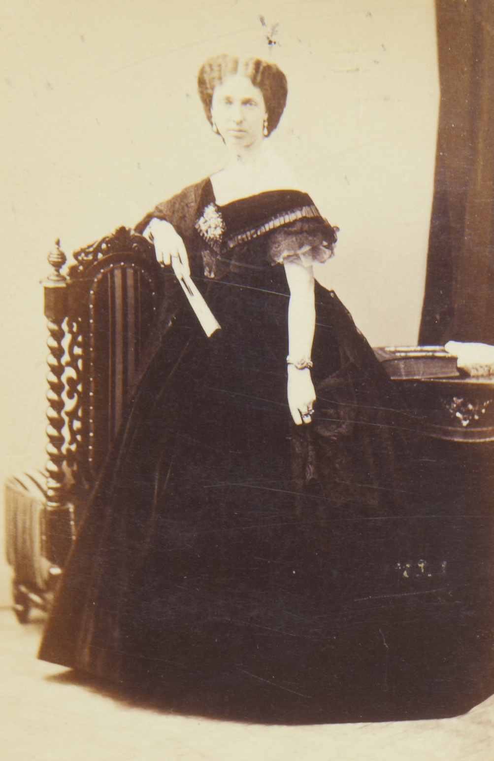 Elisabeth of Saxony, duchess of Genoa